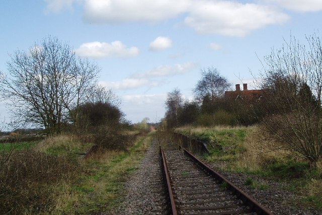 Site of Verney Junction station, Buckinghamshire, with stationmaster's house on right.